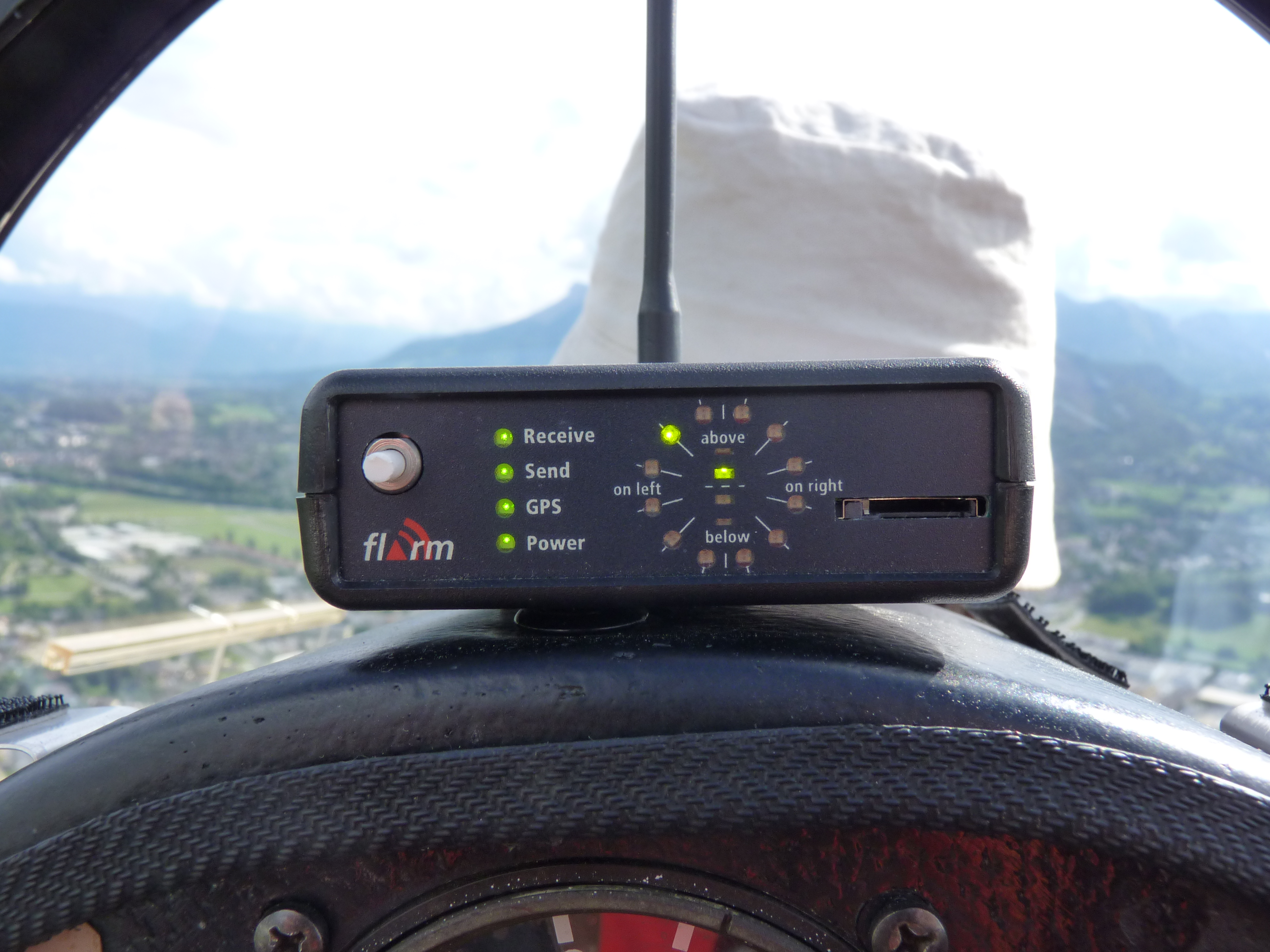 Flarm equipment